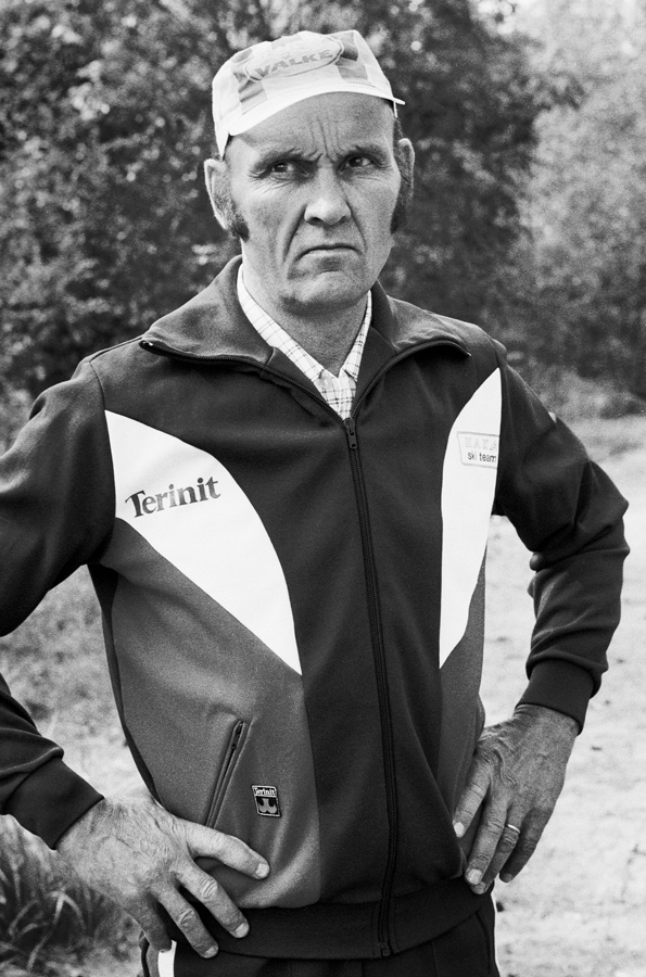 Veikko Hakulinen in Valkeakoski in 1978